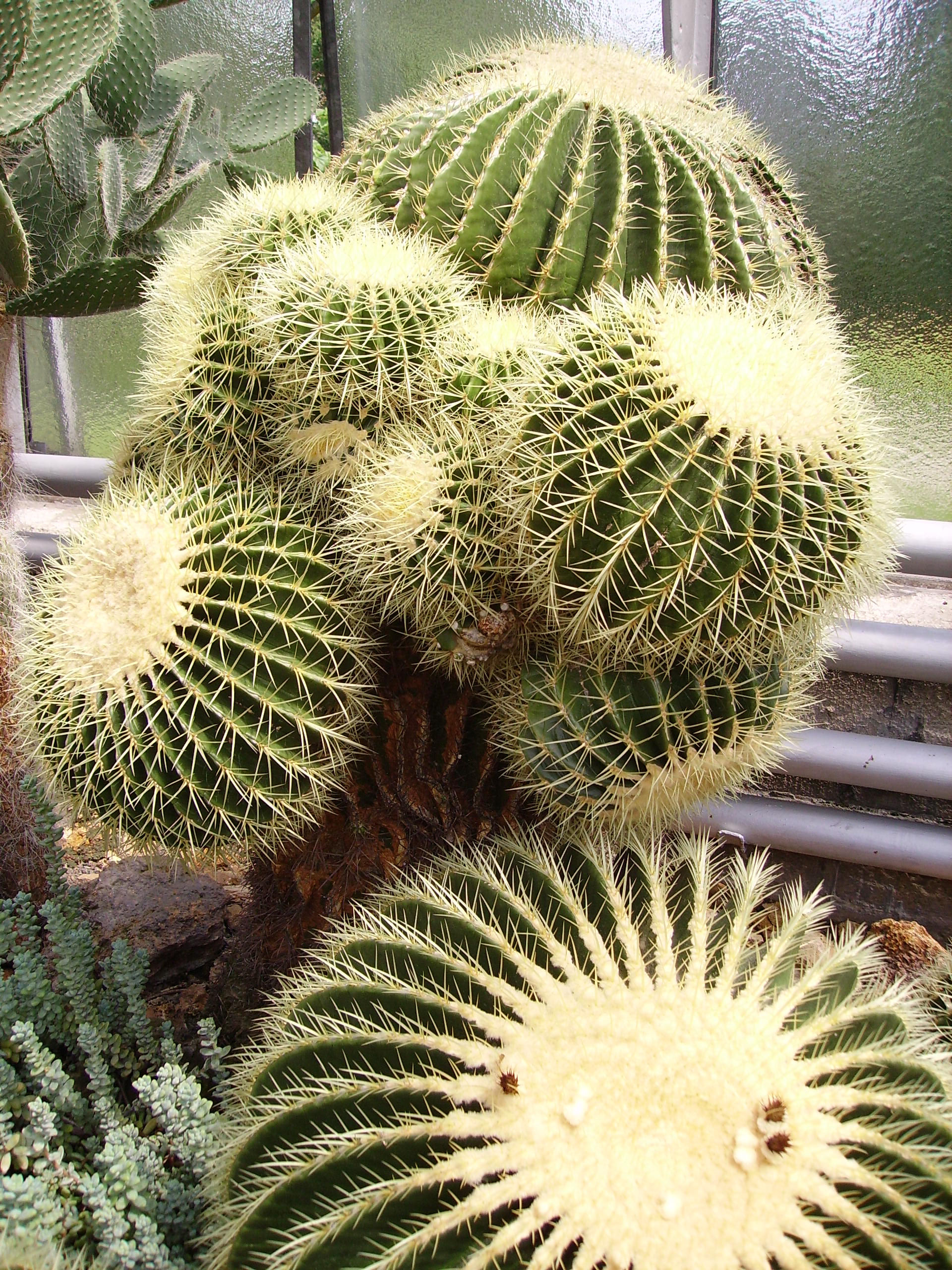 zoological garden and botanical garden Wilhelma in Stuttgart, Germany